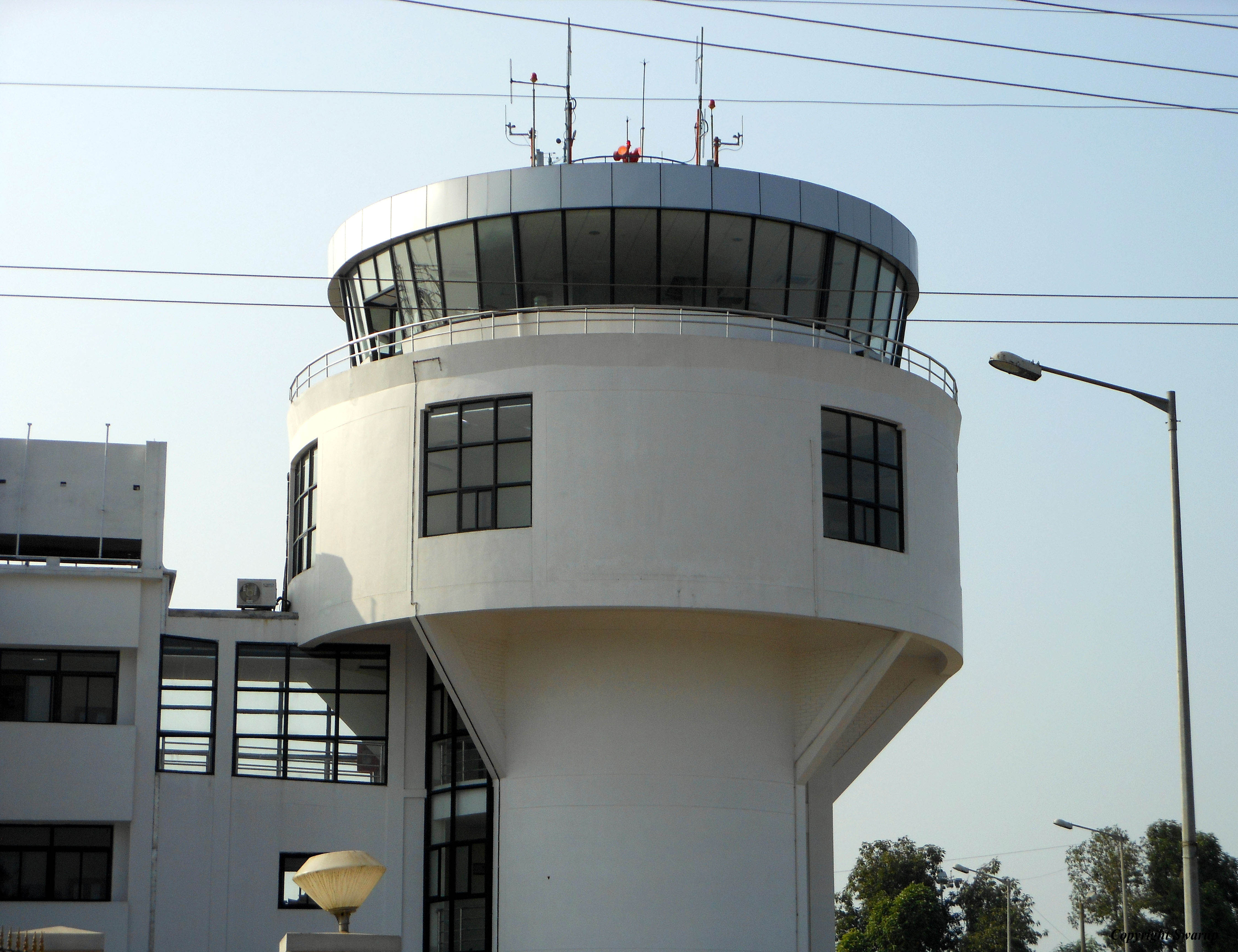 The newly constructed Air Traffic Control of Agartala Airport